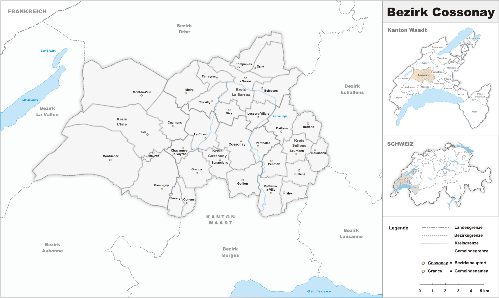 Municipalities in the district of Cossonay